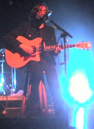 Tristan Nihouarn